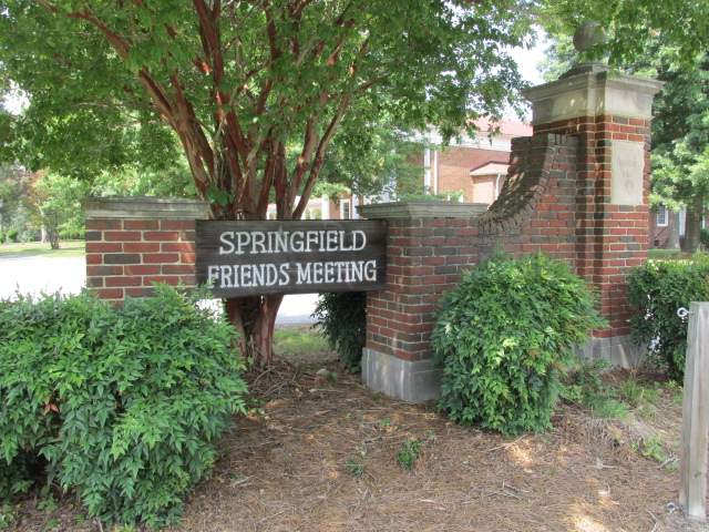 Sign in front of Springfield Friends Meeting, High Point, NC